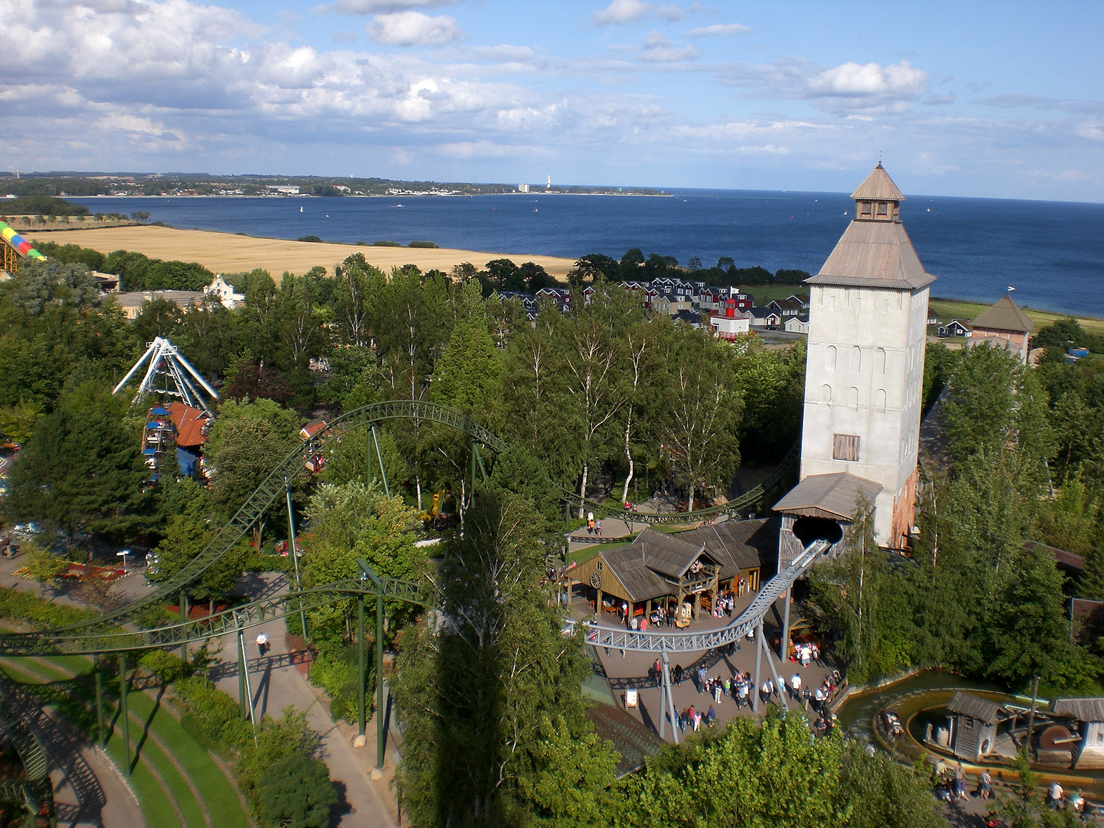 Overview of the roller coaster “Fluch von Novgorod” at Hansa-Park